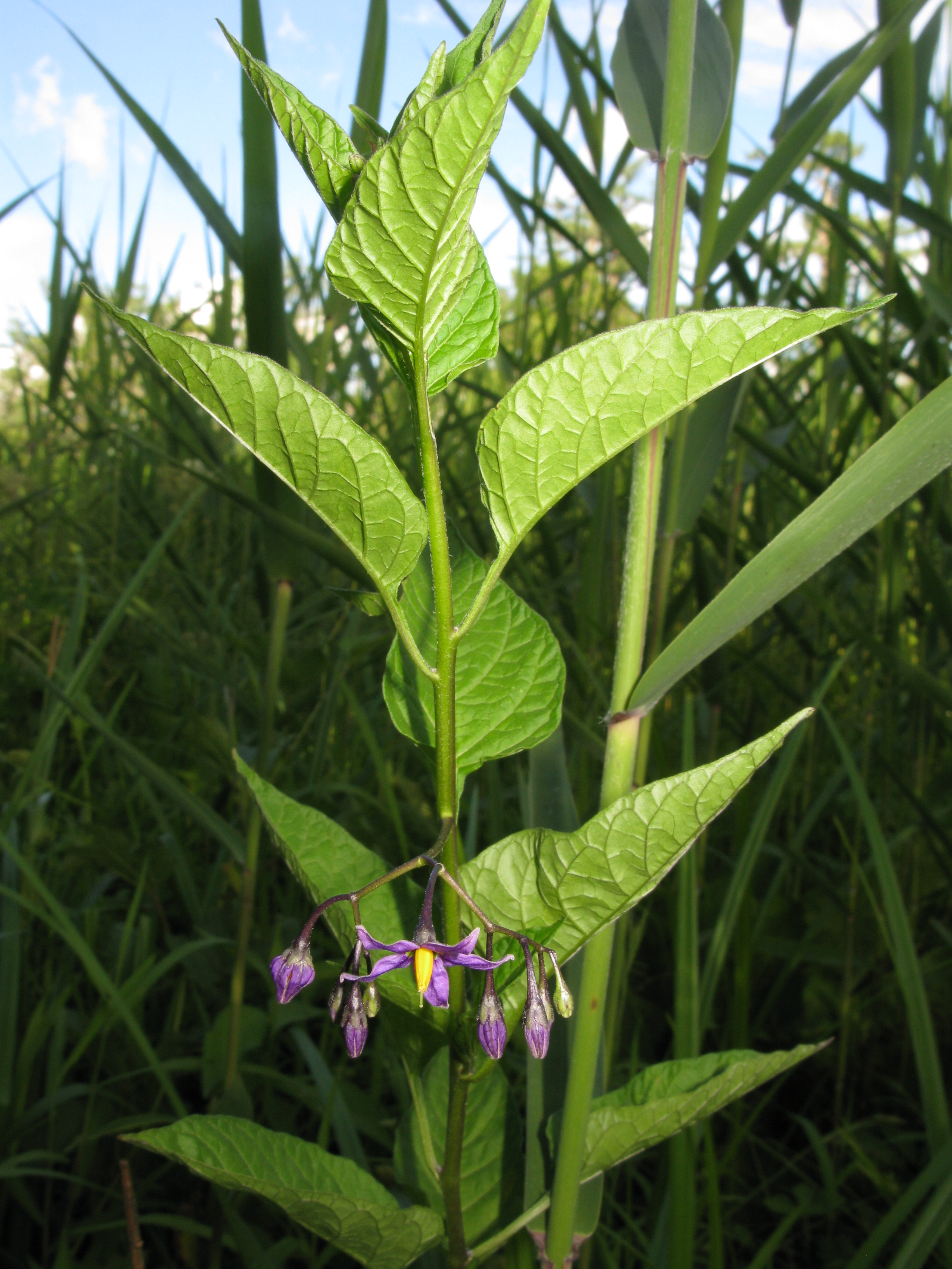 Solanum megacarpum, Oze, Gunma pref., Japan